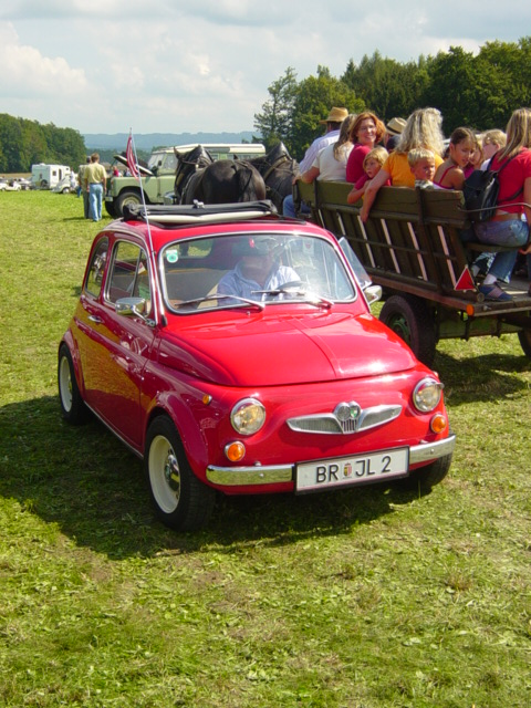 oldtimer Steyr-Daimler-Puch Austria